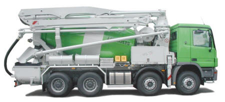 Picture of a truck mixer concrete pump author: B. Maerkert Source: own picture outlined